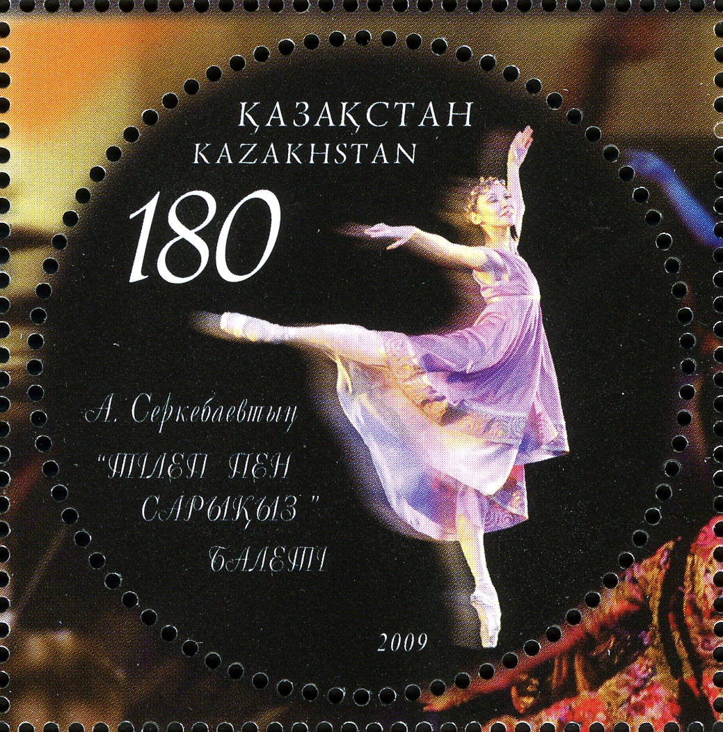 Stamps of Kazakhstan, 2009